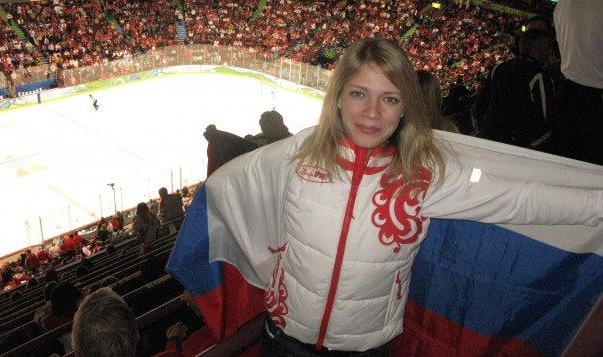 Tatiana Borodulina at the 2010 Vancouver Games